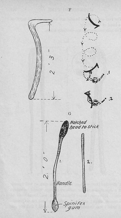 Illustration 35: G Clubs and Throwing Sticks from Spinifex and Sand